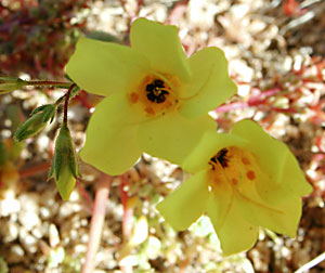 Leptosiphon aureus syn. Linanthus aureus Joshua Tree National Park, California, USA